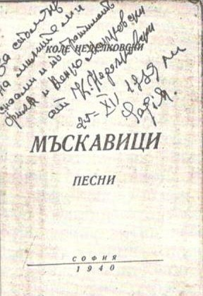 Cover of the book "Thunderbolts" of Kole Nedelkovski with a written dedication to Venko and Filja Markovski